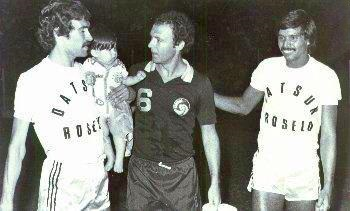 Franz Beckenbauer (center) with the Cipolletti players during the match that New York Cosmos played Argentine Club Cipolletti in Rio Negro Province of that country.